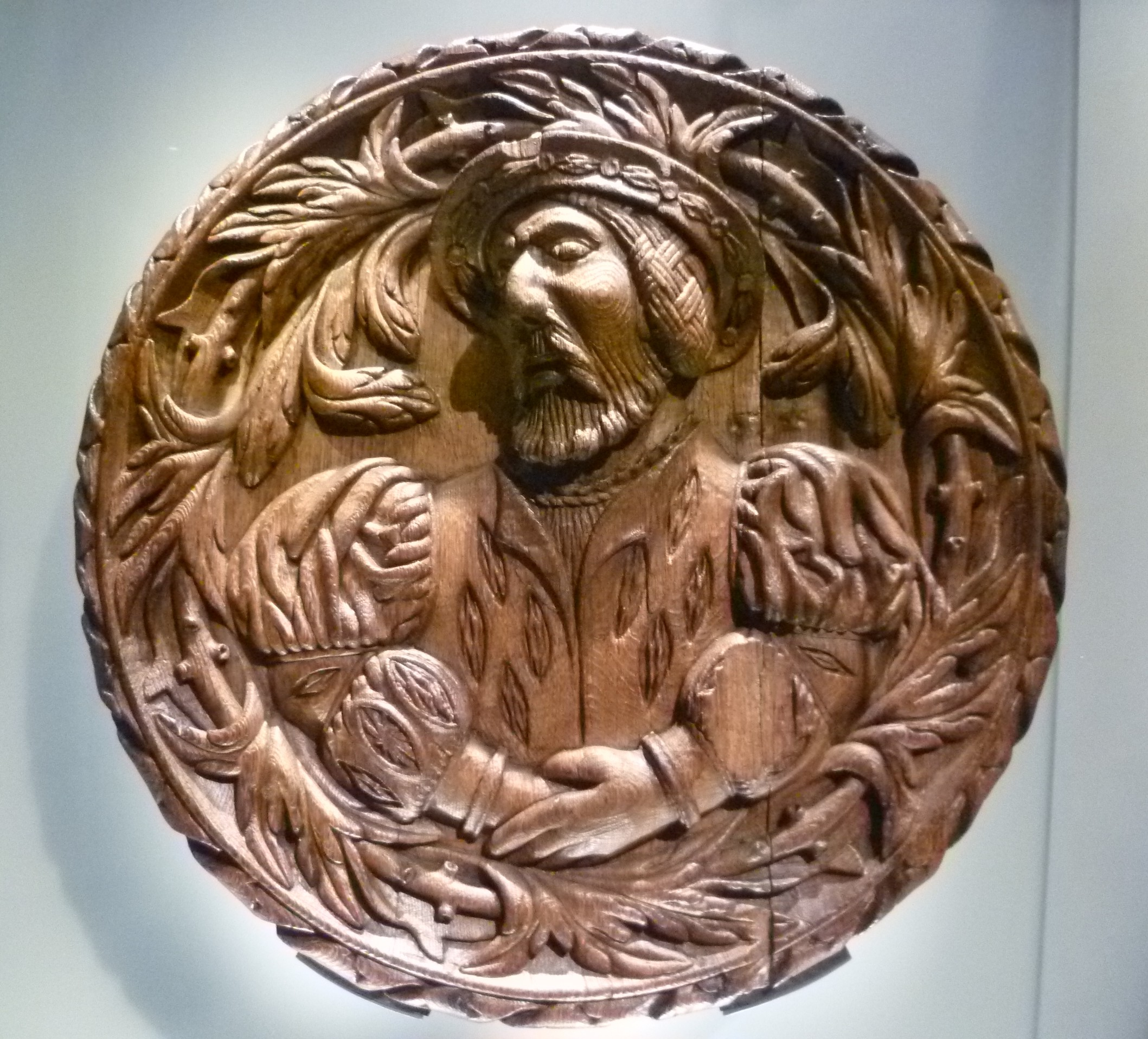 One of the 16thC carved oak heads which adorned the ceiling of the King's Chamber in Stirling Castle.